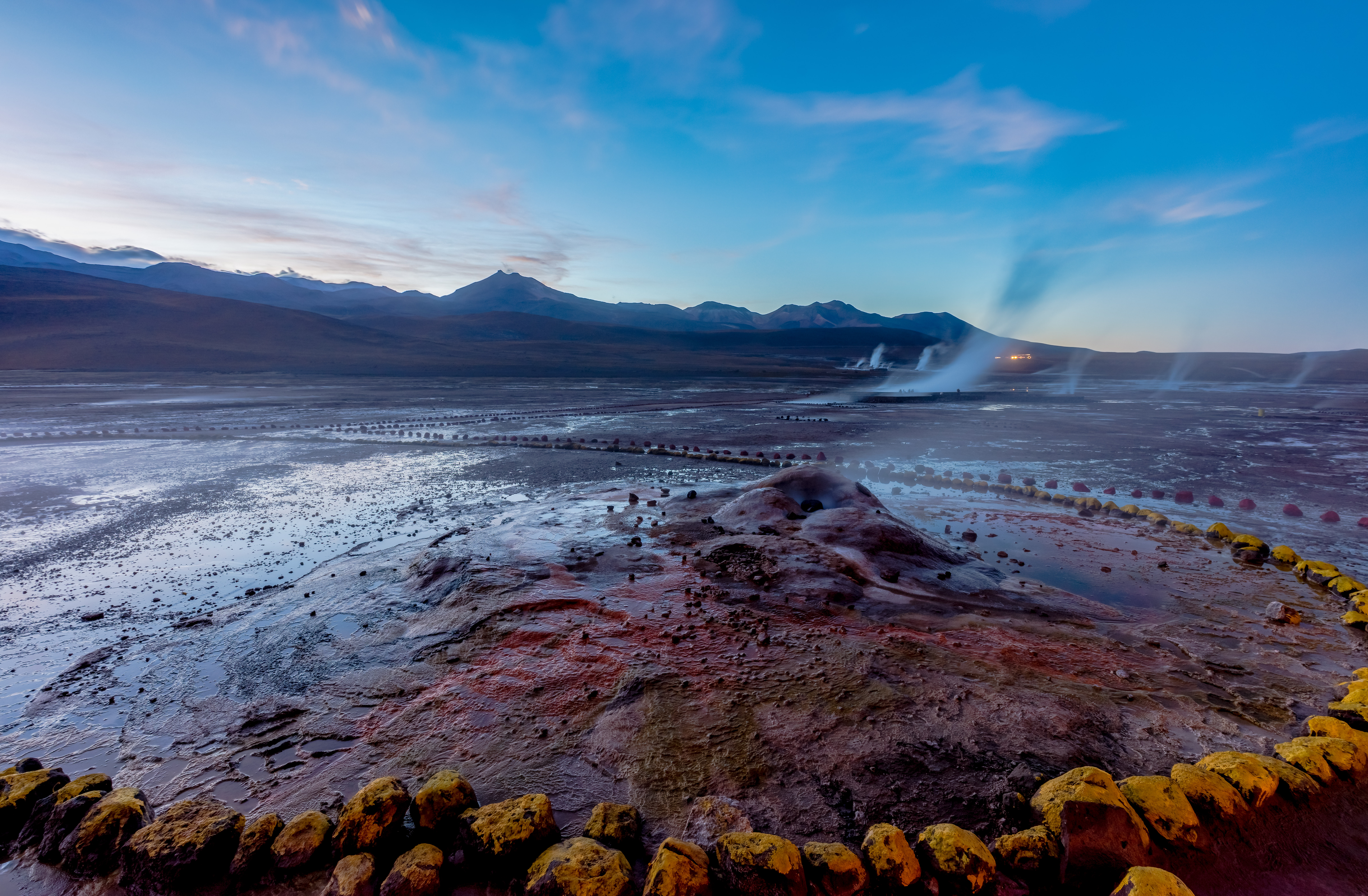 Geysers of Tatio, San Pedro de Atacama, Chile